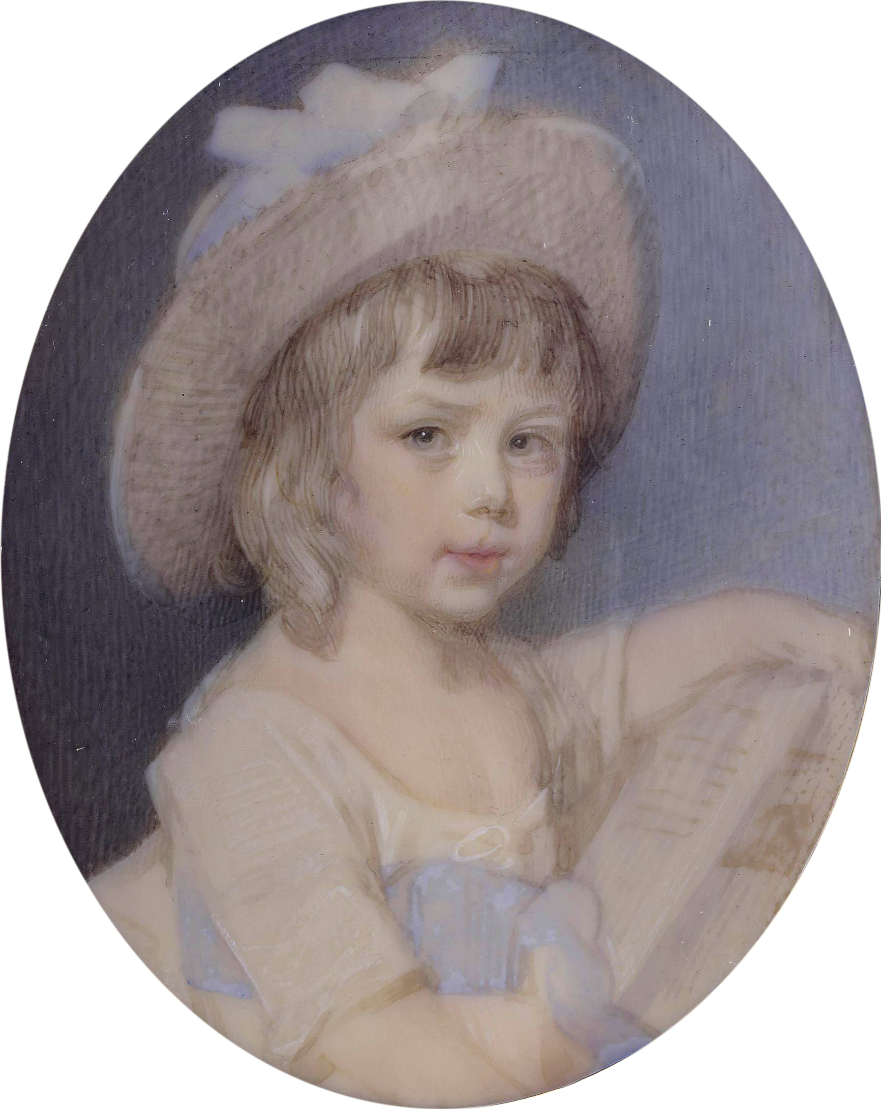 Thomas Alphonso Hayley (1780-1800) on ivory 8 cm high